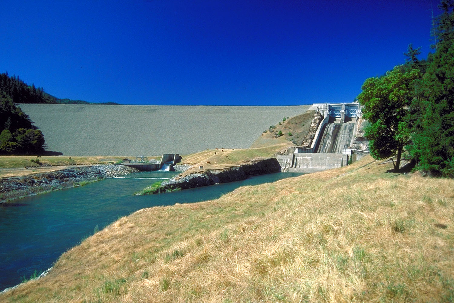 Applegate Dam on the Applegate River in Jackson County, Oregon. The dam impounds Applegate Lake on the river. The lake is approximately 3.5 miles (5.6 km) long and extends upriver nearly to the California border. The dam is located approximately 23 miles (37 km) (straight line) west-southwest of Ashland, Oregon in the Siskiyou Mountains of southern Oregon.